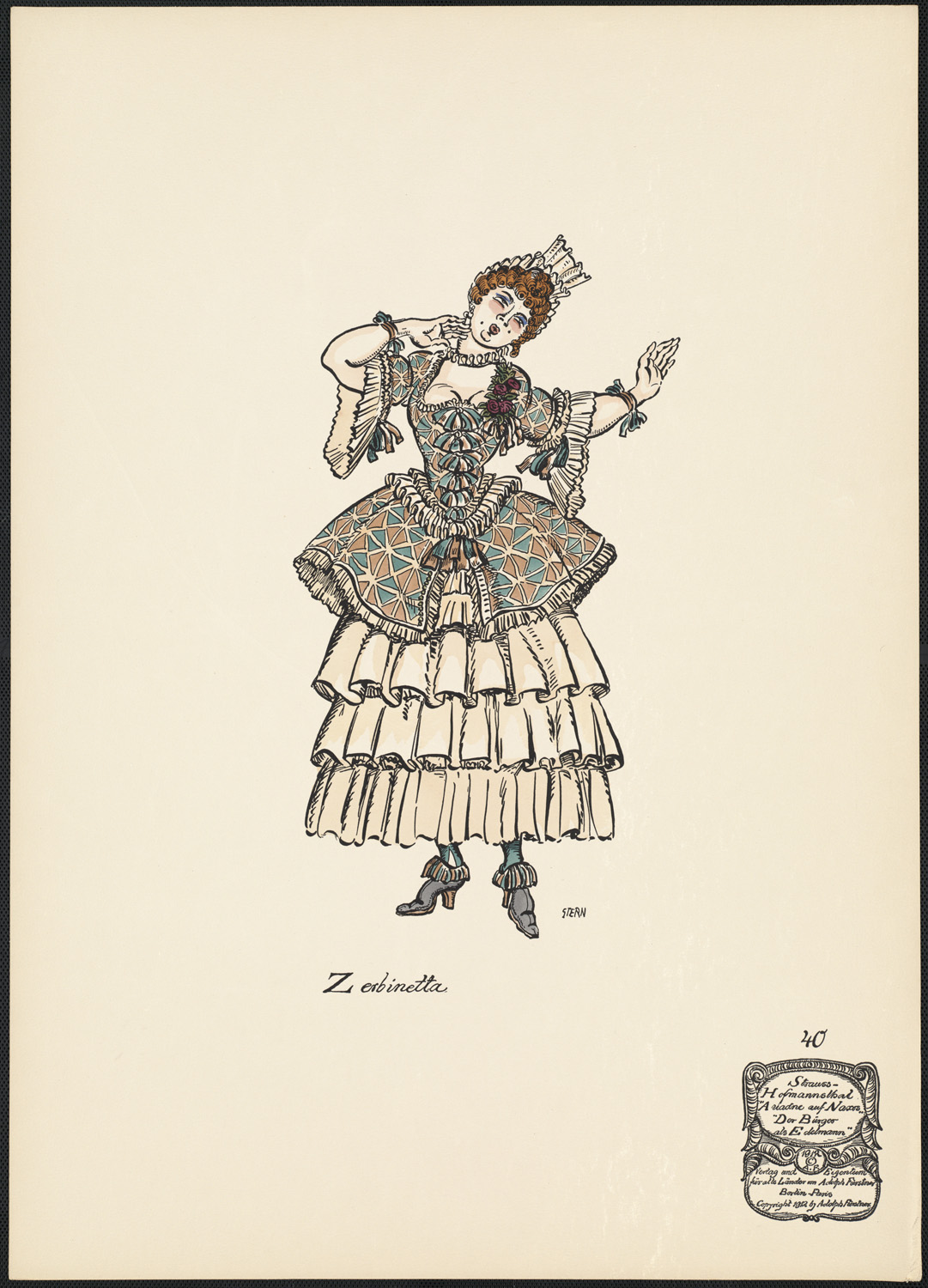 BPLDC no.: 09_07_000042 Page/Plate Number: Plate 40 Page/Plate Title: Zerbinetta Volume: Ariadne auf Naxos : Oper in einem Aufzuge von Hugo von Hofmannsthal ; Musik von Richard Strauss, zu spielen auf dem "Bürger aus Edelmann" des Molière ; Skizzen für die Kostüme und Dekorationen Call no.: Acc. 89-301 xxb Creator: Ernst Stern Description: [54] leaves : col. ill. (some folded) ; 63.3 cm. Summary: Prints of costumes and sets for the original (1912) production of Richard Strauss's Ariadne auf Naxos. BPL Department: Rare Books Collection Flickr data on 2011-08-08: Camera: Sinar AG Sinarback 54 FW, Sinar m License: CC BY 2.0 User: Boston Public Library BPL